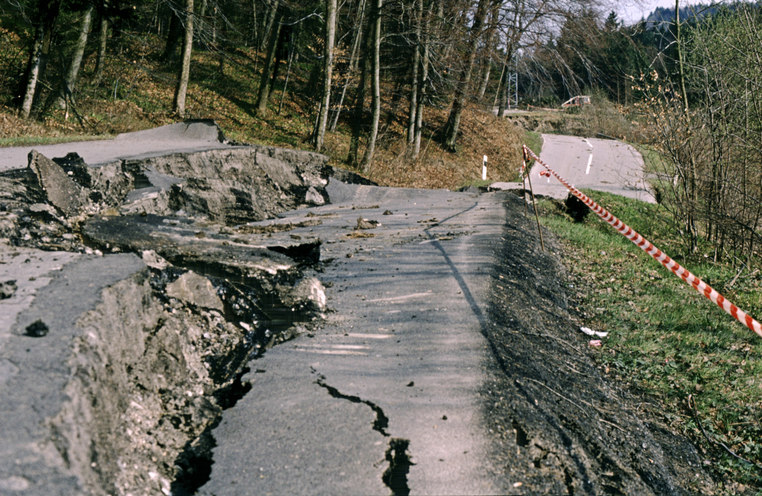 Landslip on Albtrauf (Swabian Jura) near Albstadt-Onstmettingen